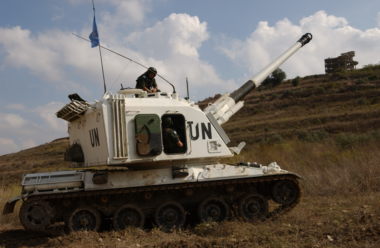 Description canon AUF1 au Liban Date17 October 2006SourceSelf-photographedAuthorfantassin 72Permission(Reusing this file) libre de droits canon AUF1 au Liban